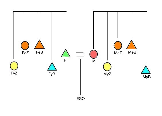 戈族親屬稱謂 I